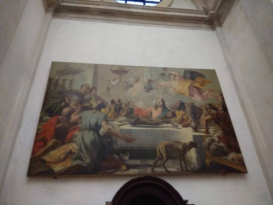 Ultima cena di Giandomenico Tiepolo